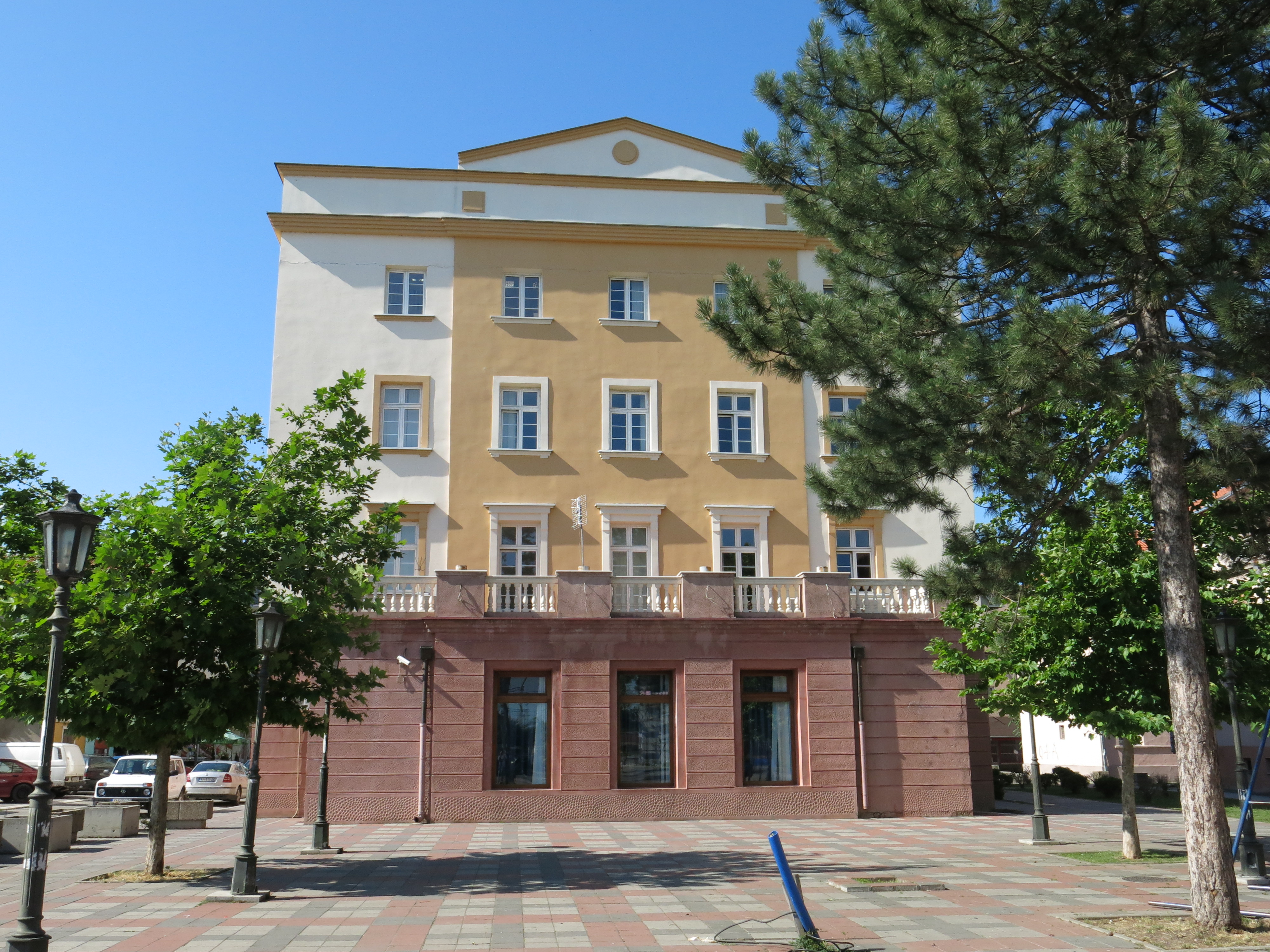 Lajkovac, Lajkovac municipality building